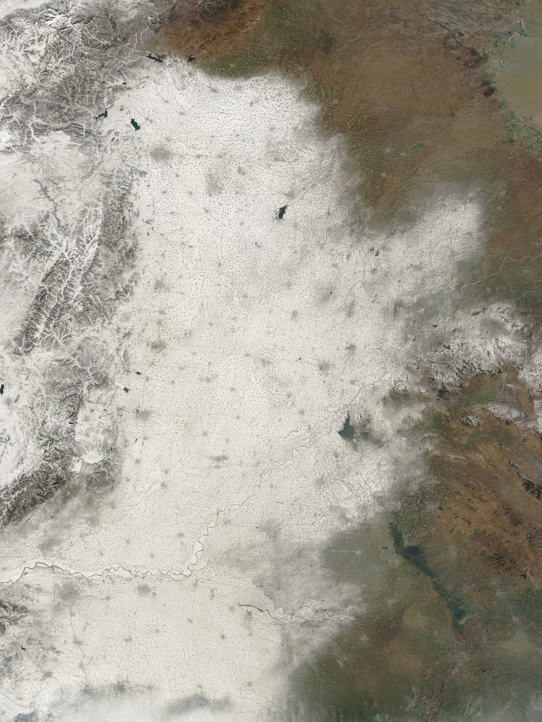 This image shows part of the North China Plain near the city of Shijiazhuang. On the plain, the snow is white where it fell on fields or natural landscapes. Artificial surfaces in cities, towns, and roads are gray. While the larger cities and towns would be visible on a day without snow or clouds, many of the smaller towns and roads would be difficult to distinguish from the surrounding landscape. In the snow, however, small towns and the roads that connect them stand out clearly.